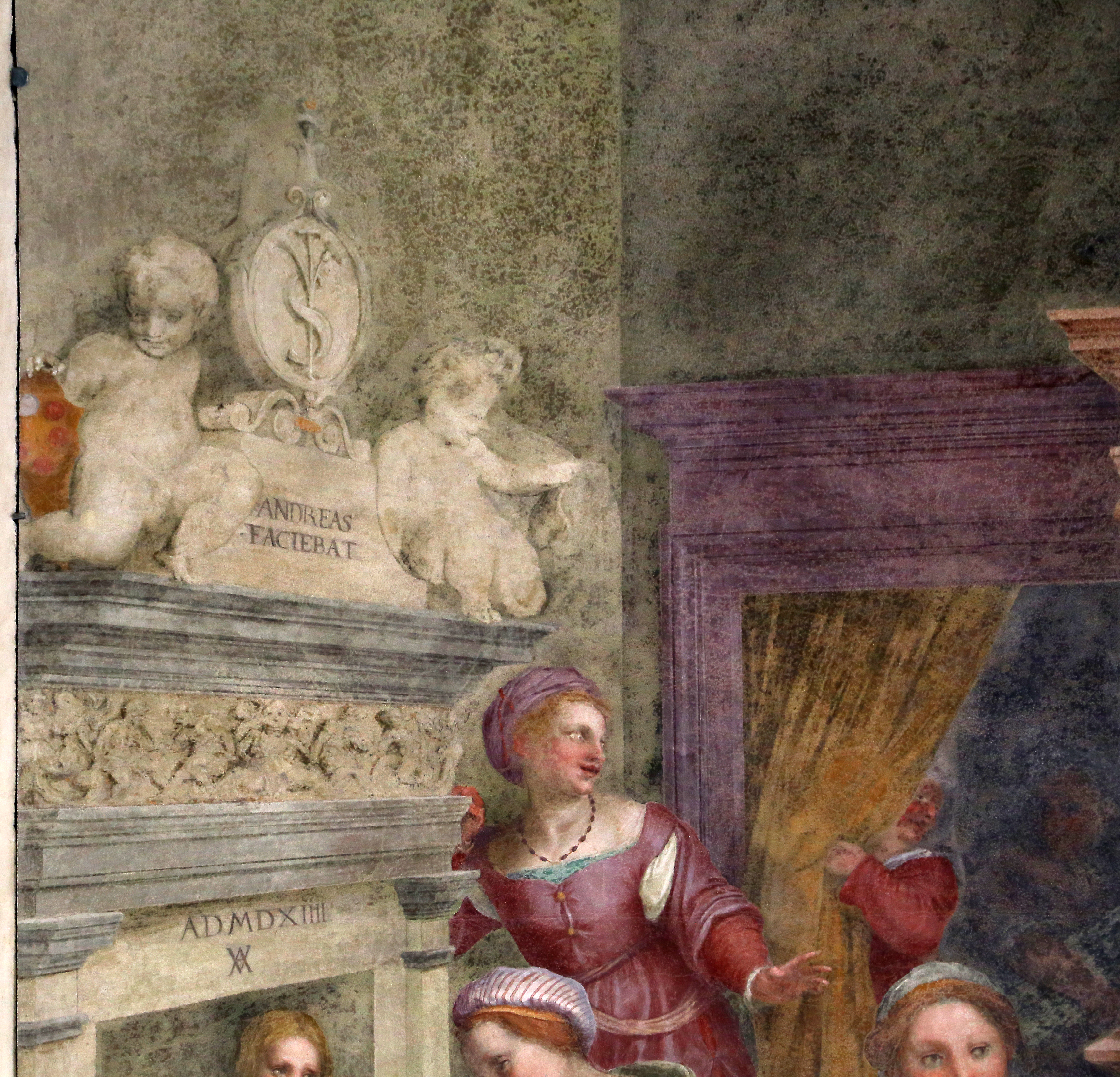 Nativity of the Virgin by Andrea del Sarto